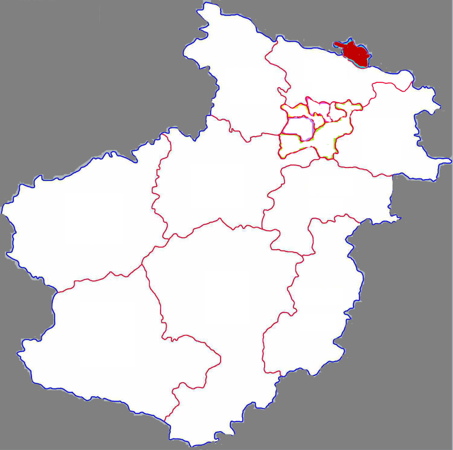 Location of Jili district in Luoyang city, China